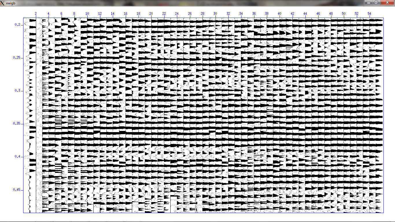 wiggle plot of seismic data